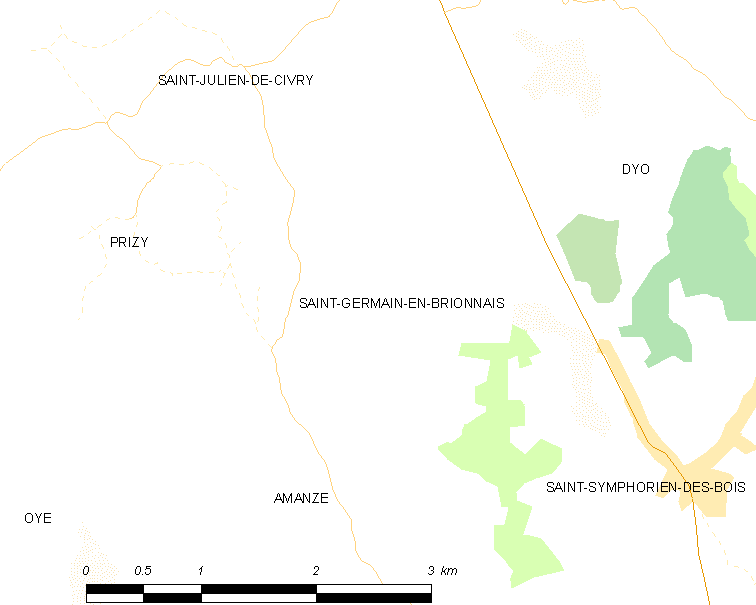 Map of French municipality